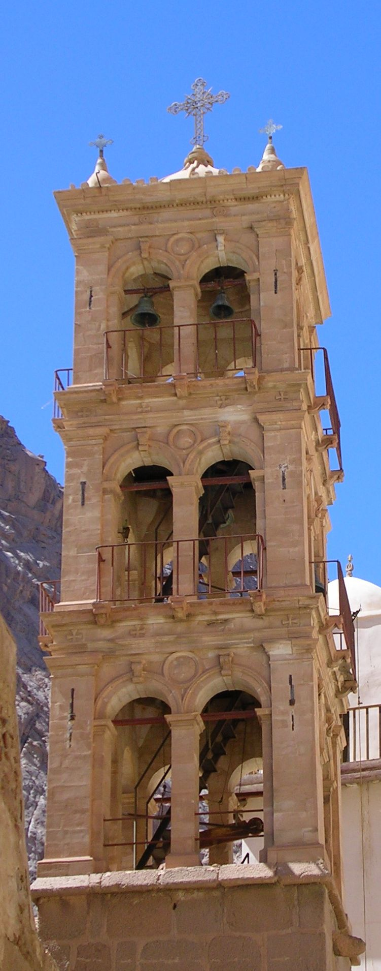 Belltower in Saint Catherine's Monastery, Mount Sinai